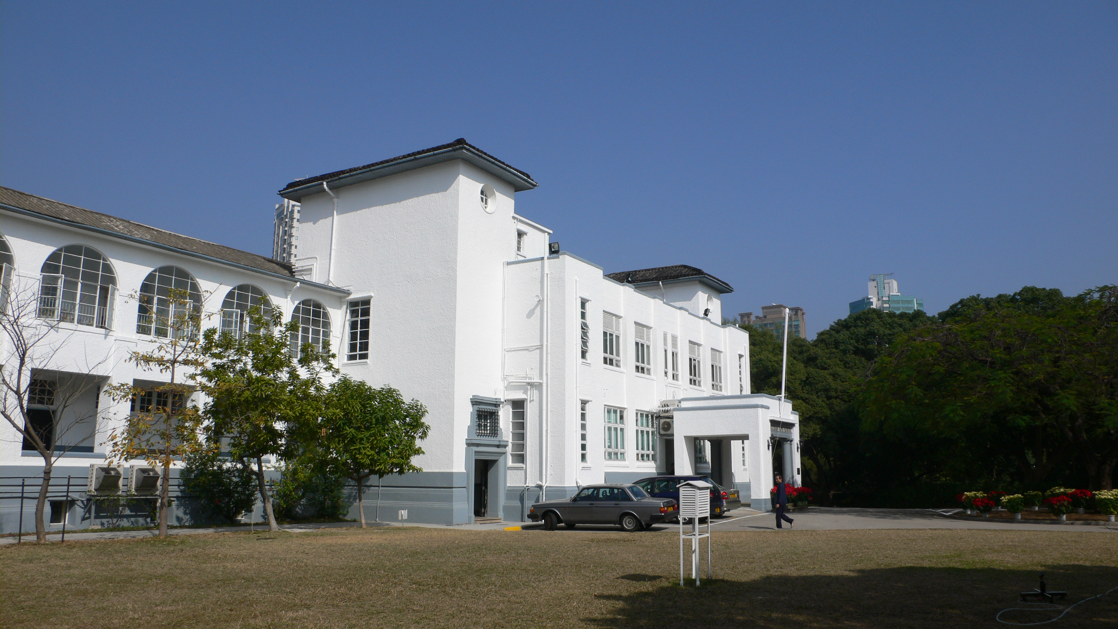 The Main Building of Diocesan Boys' School. Photo taken in Jan 2006 by Raphael Hui.